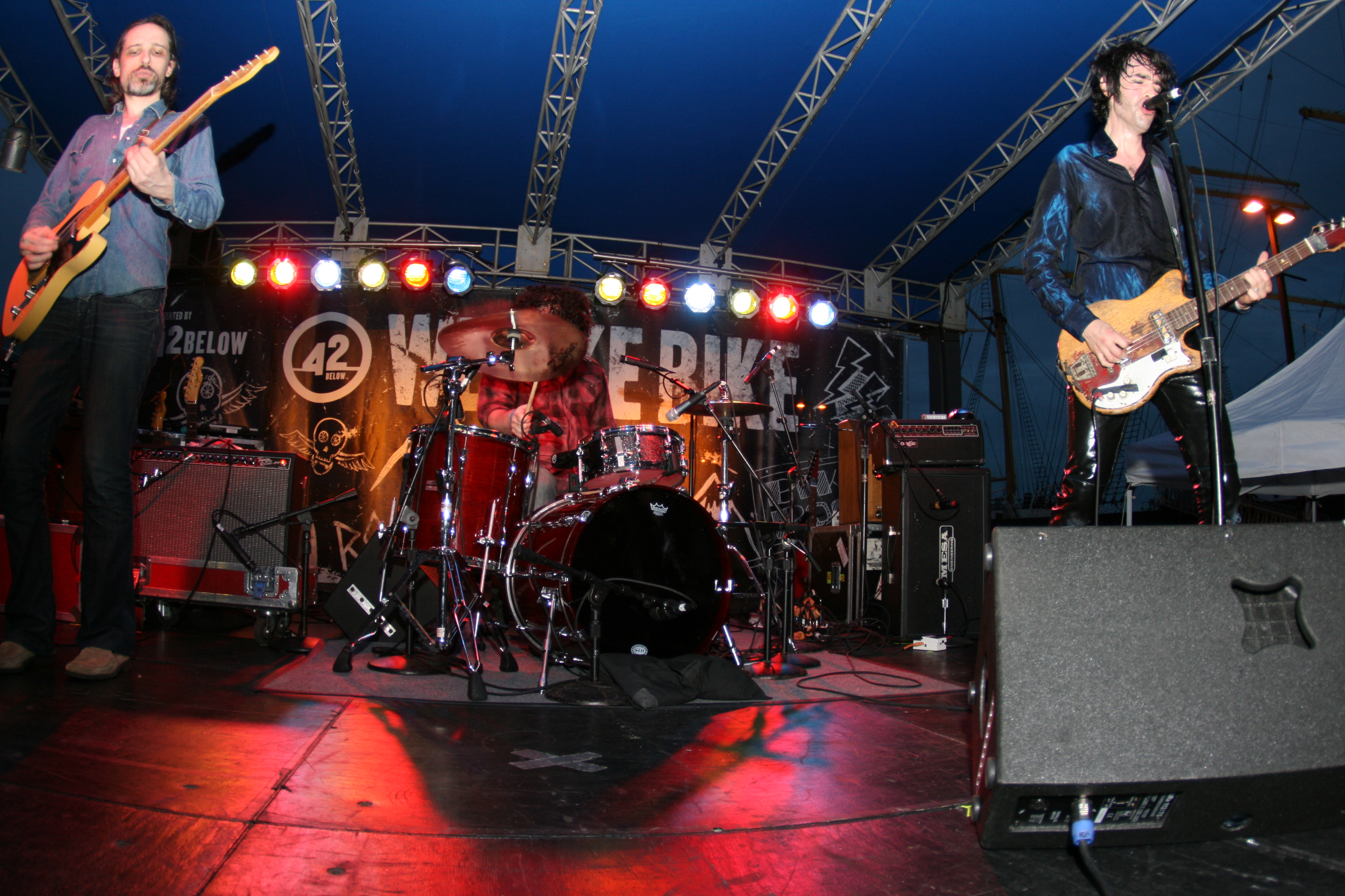 at Bikes Rock, Bicycle Film Festival 2009